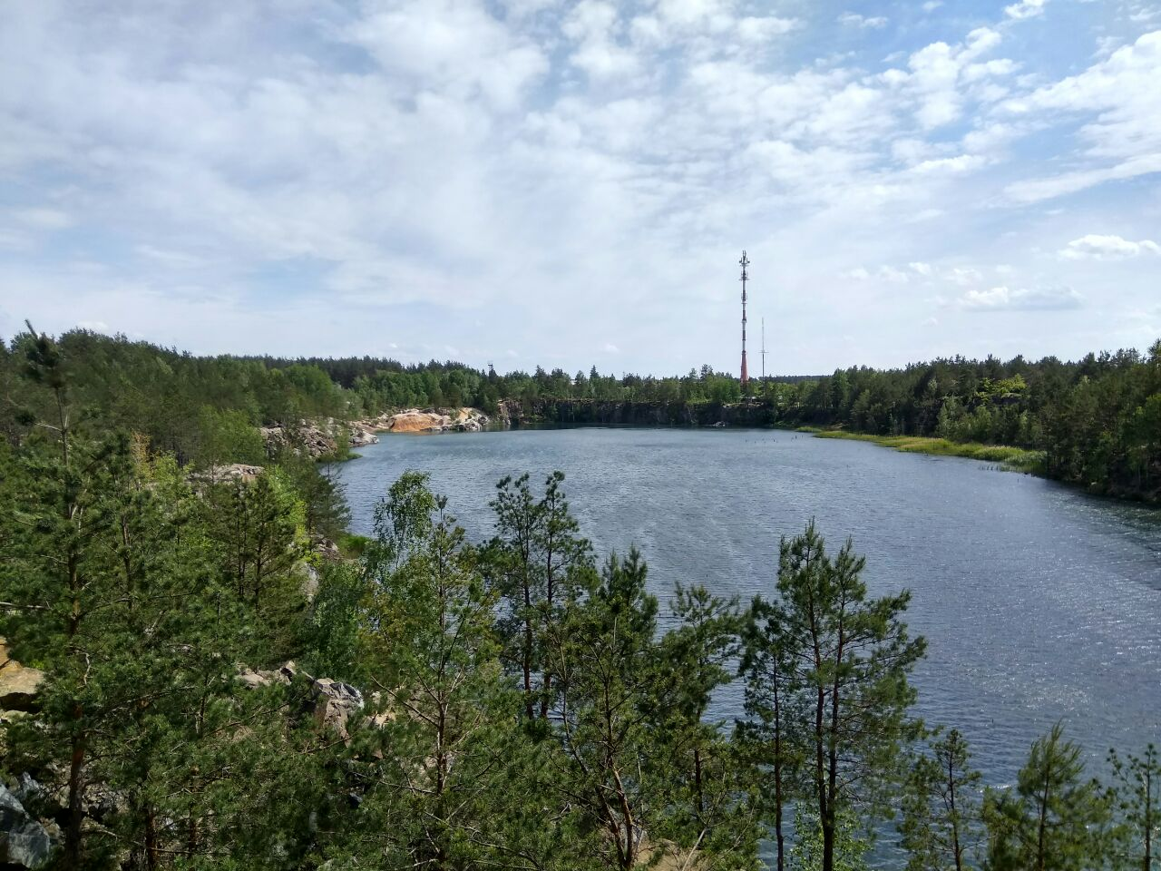 Granite quarry pond nearby Korostyschiw, directly at the eastern rim of town.